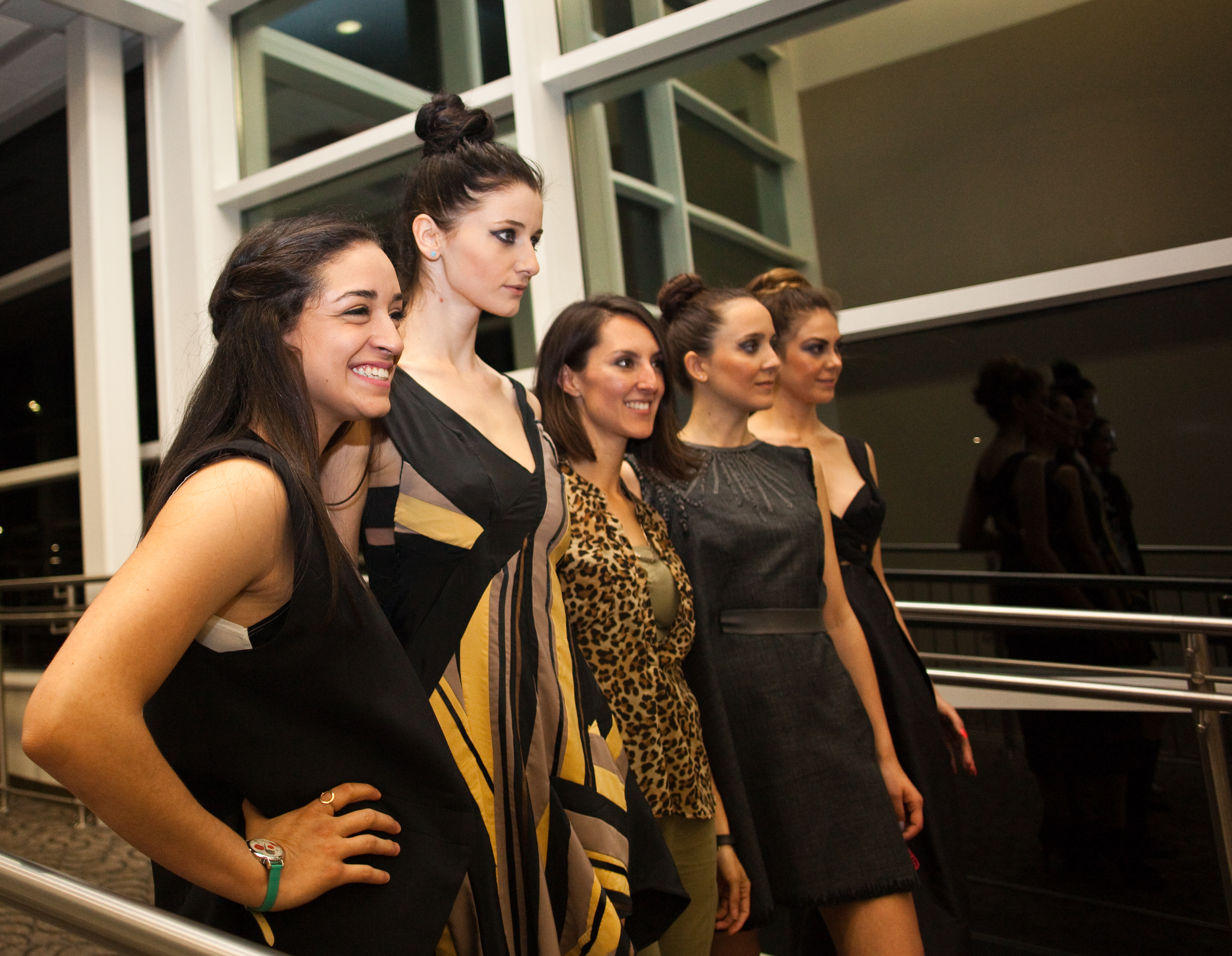 Students from the College of DuPage Fashion Studies program recently showed off their creations at "Elements," the 2015 fashion show. In addition to highlighting their creations, students received awards in various categories.